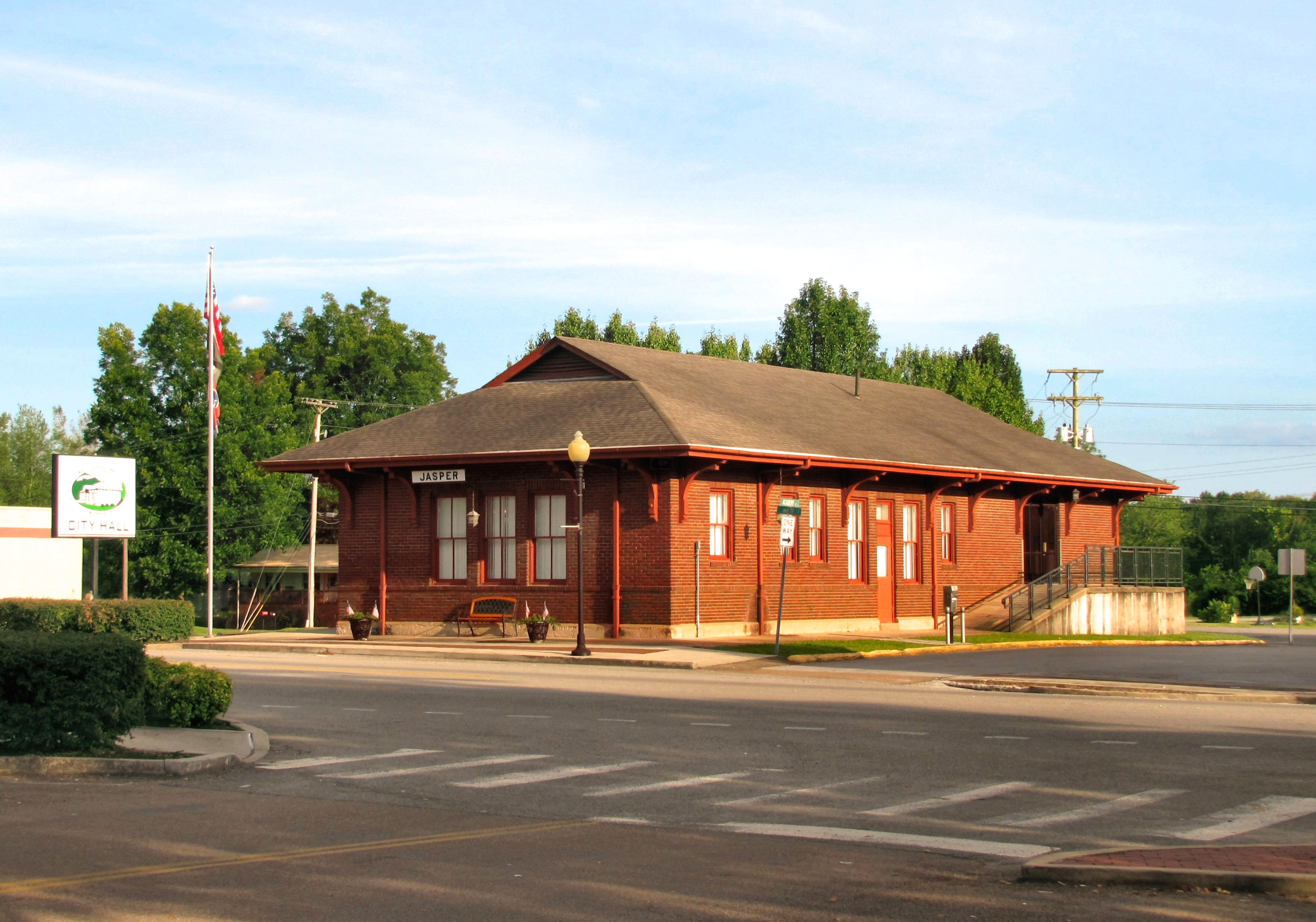 City Hall in Jasper, Tennessee, United States. Constructed in 1922, this building originally served as a railroad station.